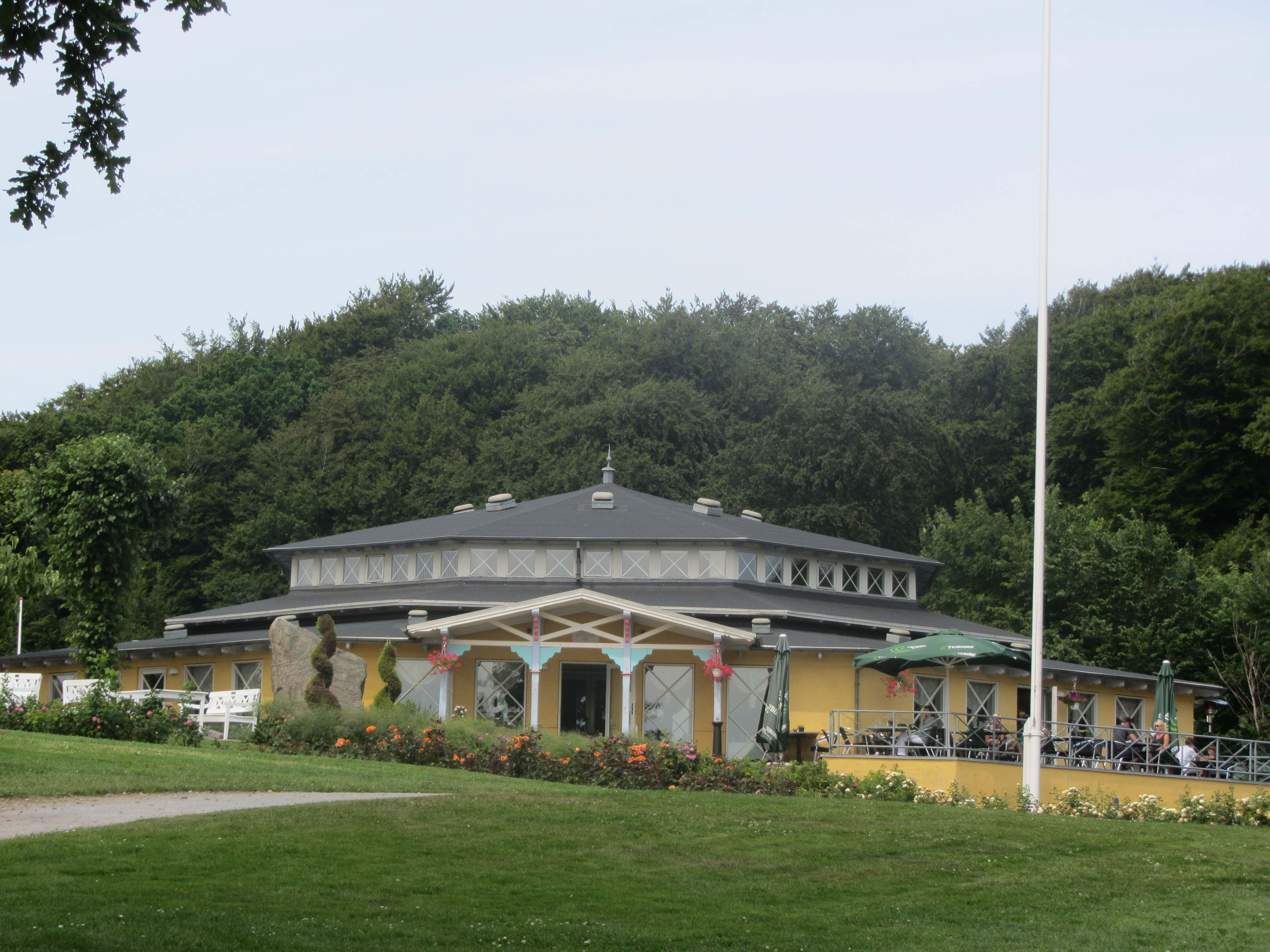 Image of Skyttehuset in Vejle, Denmark